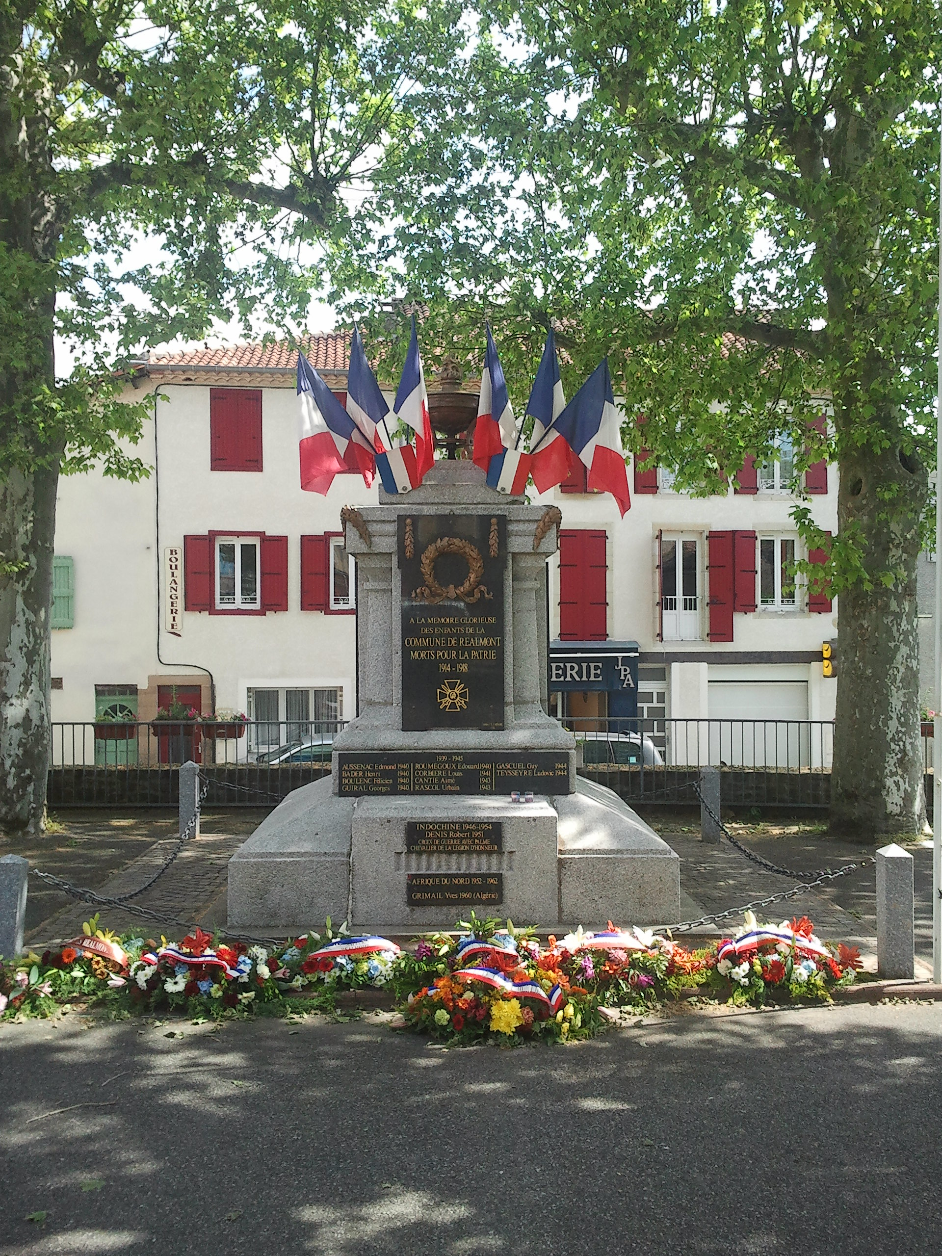 The war memorial in Réalmont